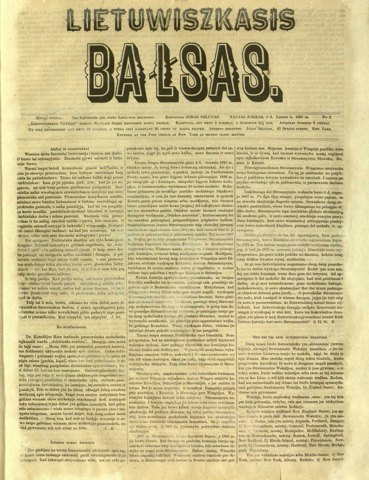 First page of Lietuviškasis balsas (volume 2), Lithuanian-language newspaper published in New York